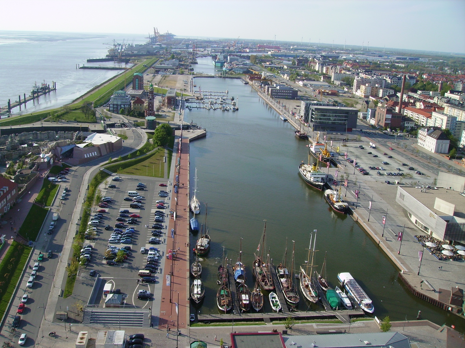 View of the Neuer Hafen ("New Port") of Bremerhaven